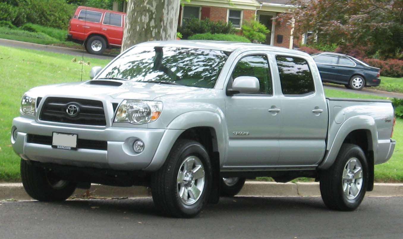 1993-2005 Toyota Tacoma photographed in USA.